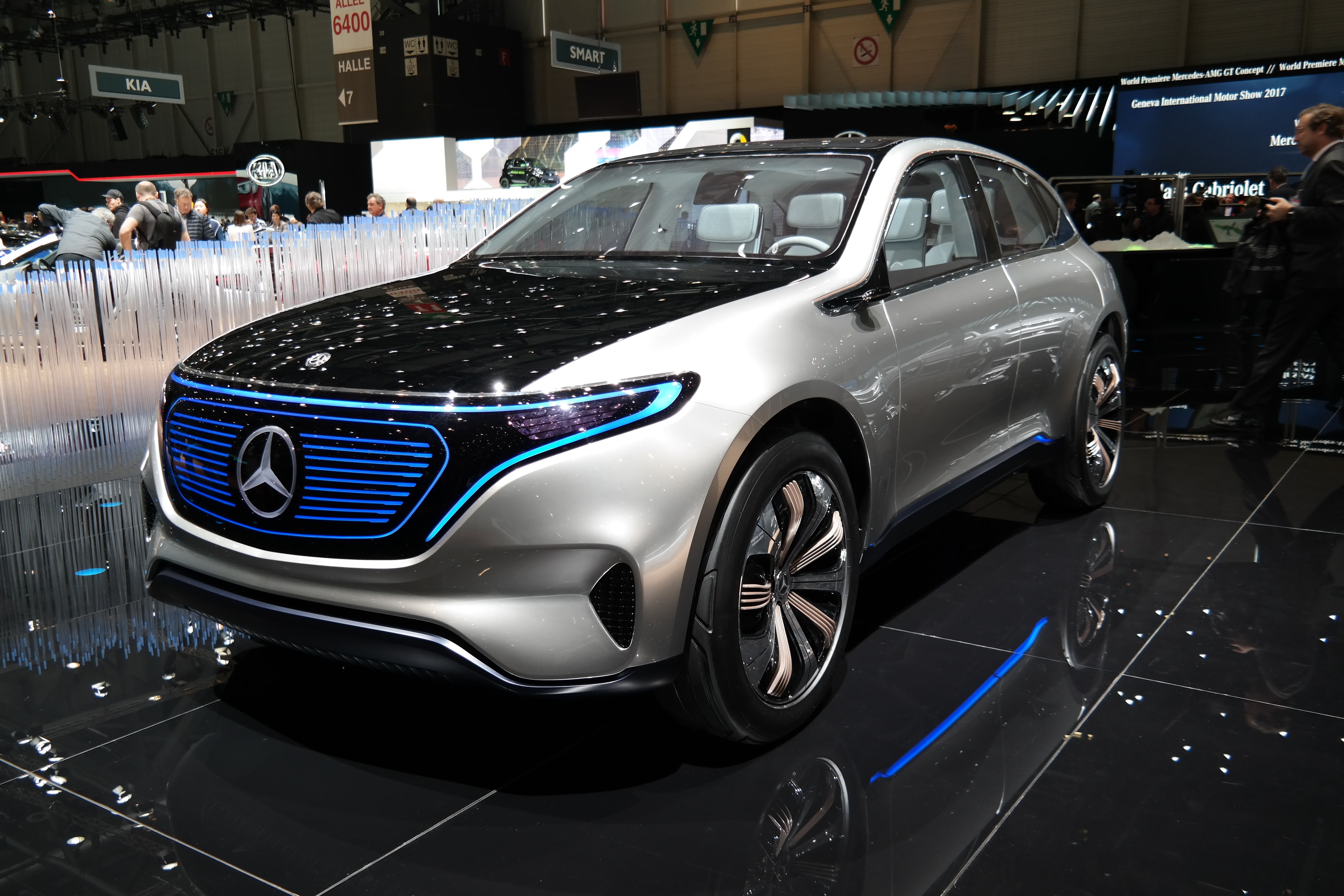 Geneva Motor Show 2017 (photo taken on the first press day)